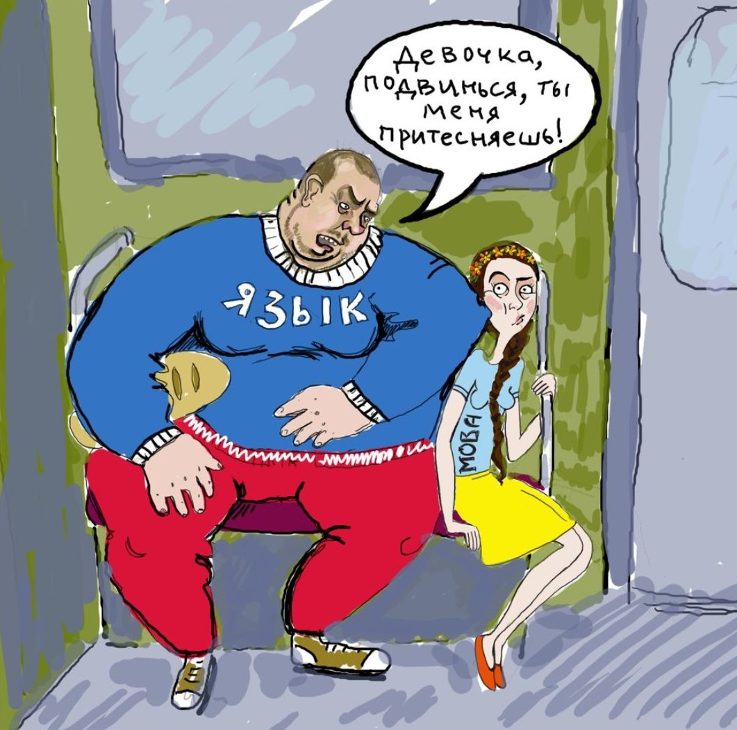 A caricature that depicts the linguistic situation in modern Ukraine. Was used in the actions of NGOs against discrimination of Ukrainian language. Translation: Russian language says to Ukrainian: "Little girl, move over! You're squishing me!" Picture made by activist of "Vidsich".